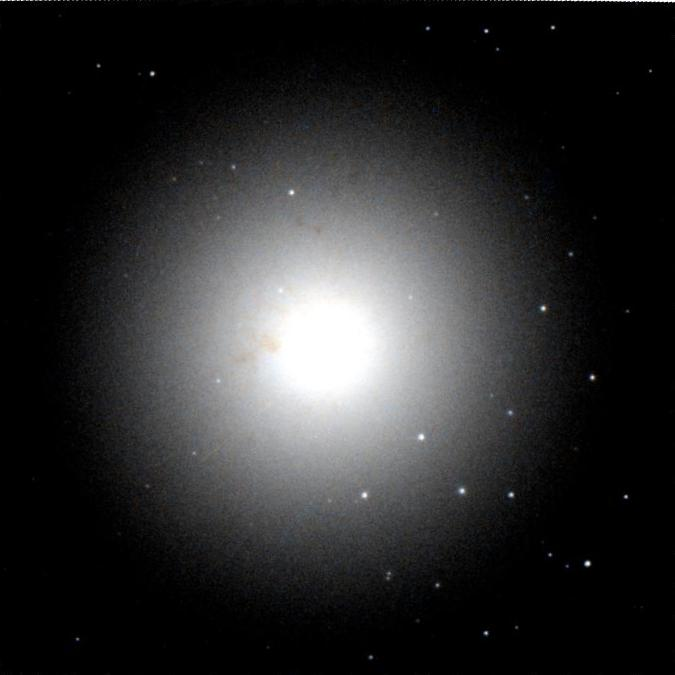 NGC 4636 - Hubble Space Telescope - Hubble Legacy Archive